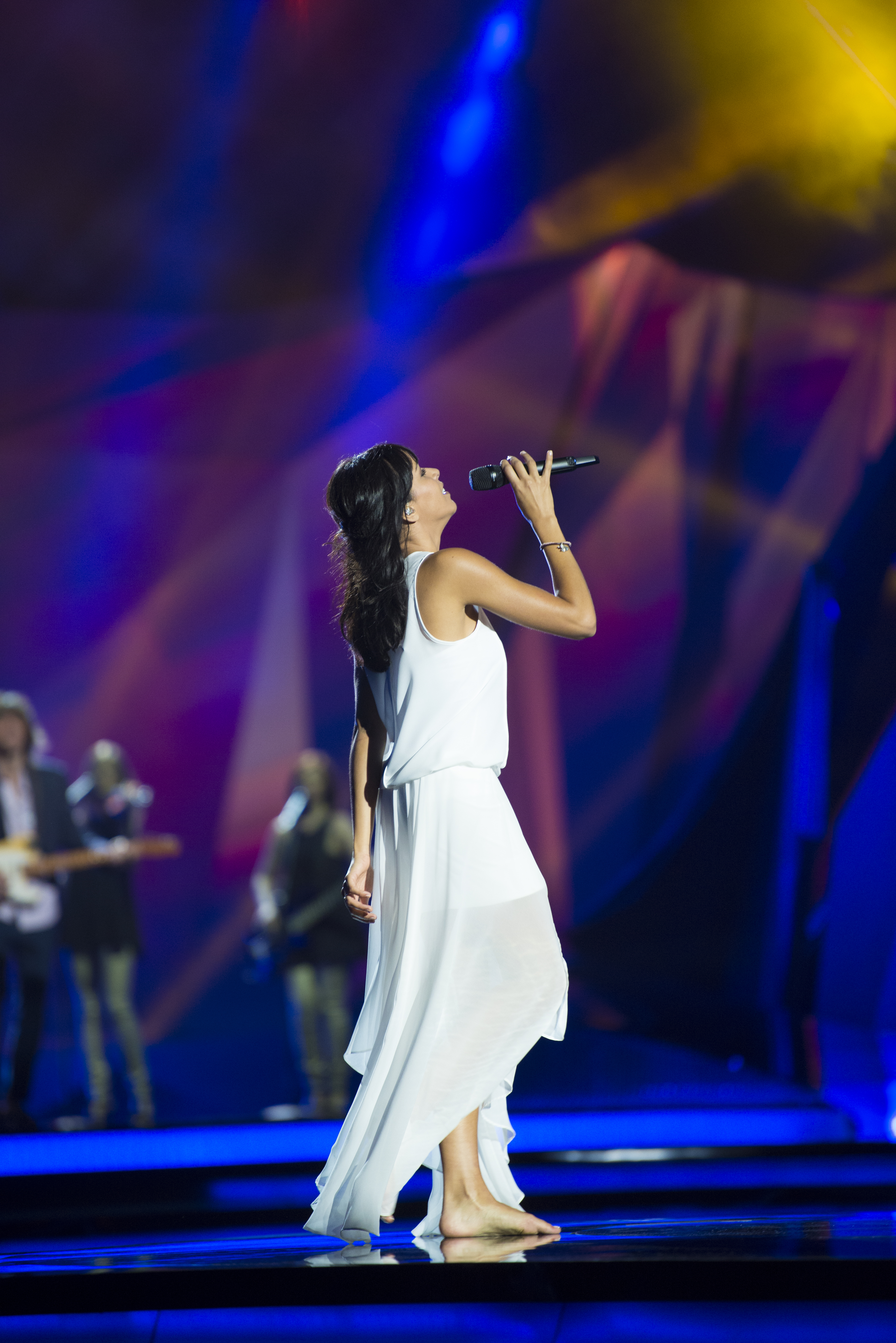 El Sueño de Morfeo representing Spain with the song "Contigo hasta el final" during the first dress rehearsal for "the Big Five" in the Eurovision Song Contest 2013 Malmö. (Help translate this text)